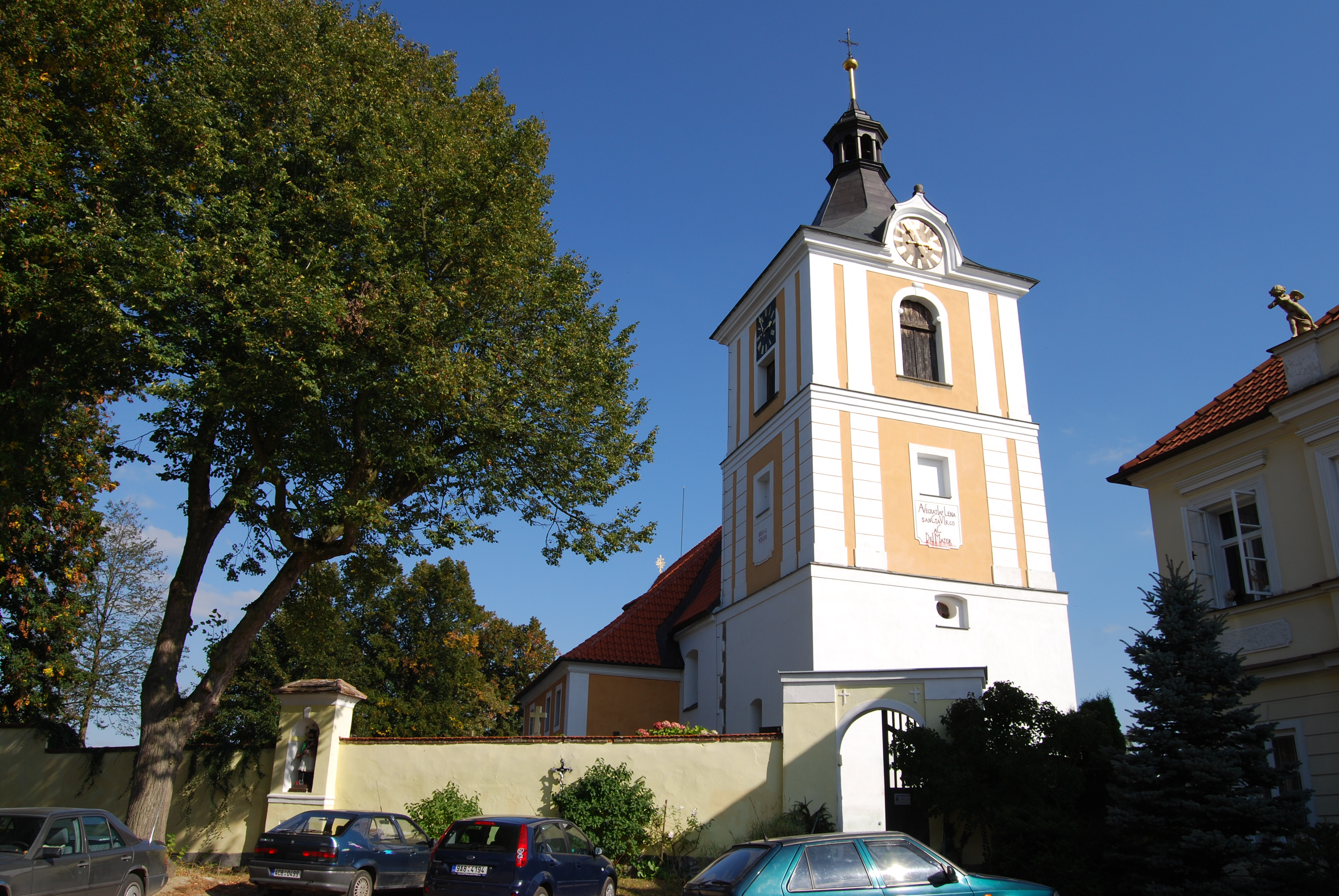 Village Kostelec nad Vltavou. Church of "Narození Panny Marie"